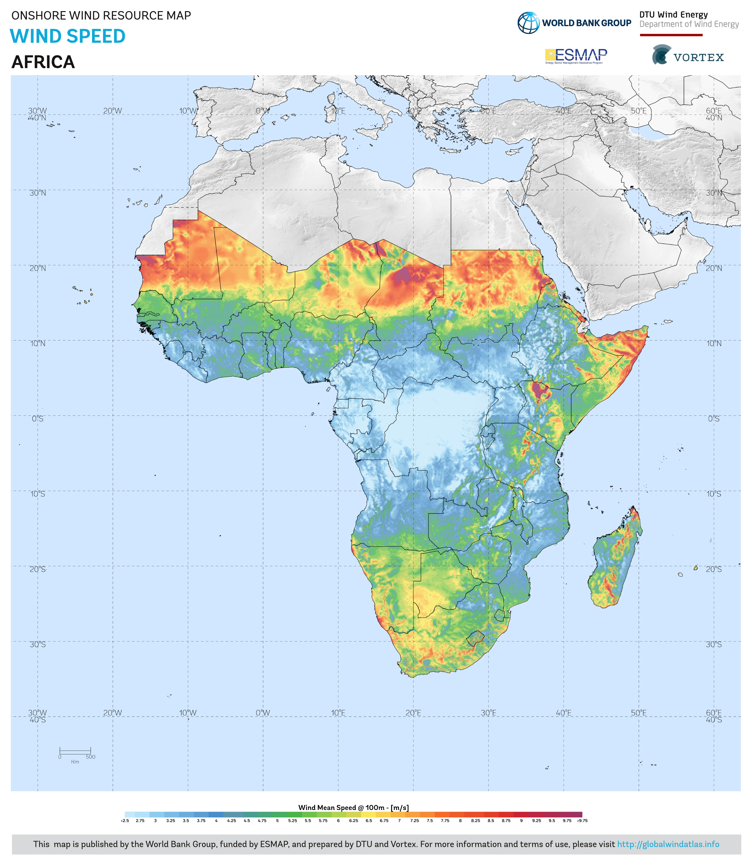 Mean Wind Speed in Sub-Saharan Africa from Global Wind Atlas